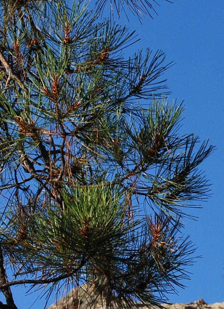 Pinus attenuata foliage